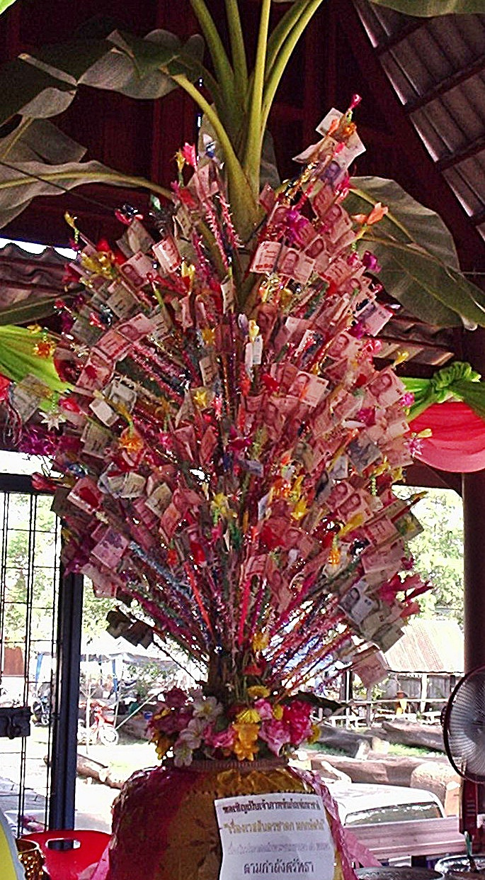 Thai Currency in Wat Pa Kanun Location: Uttaradit Province, Thailand.